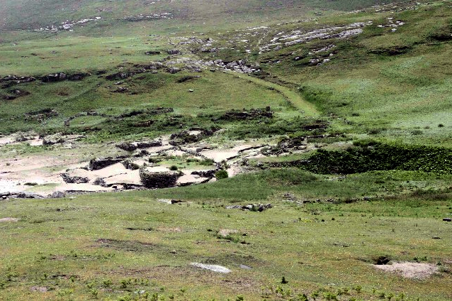 Mingulay main settlement from the North